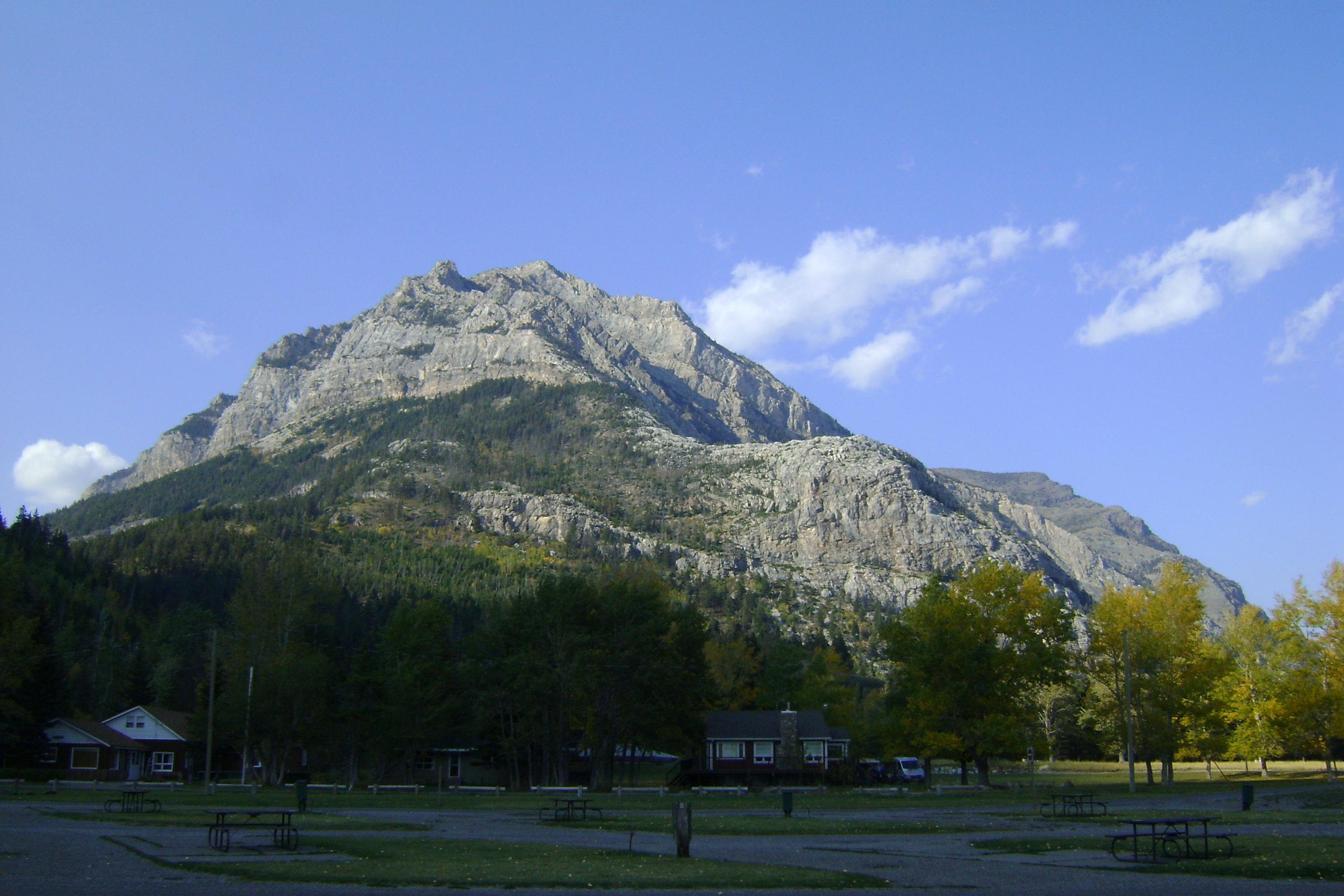 Mt. Crandell, Viewed from Waterton Town Campground - September 2012